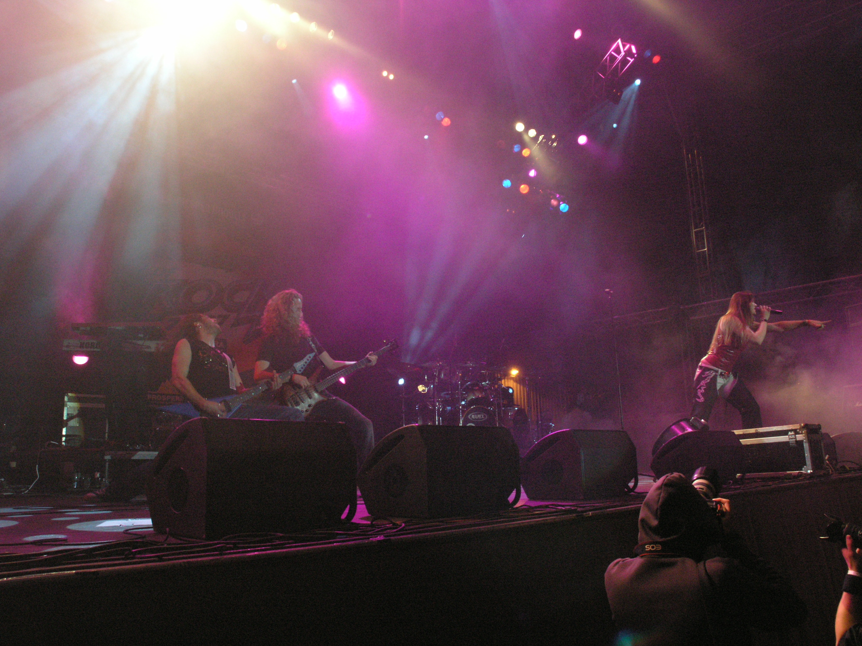 Music band After Forever during Masters of Rock 2007 festival